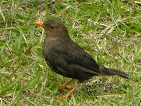 Island Thrush, (Turdus poliocephalus) Kumul Lodge, Papua New Guinea